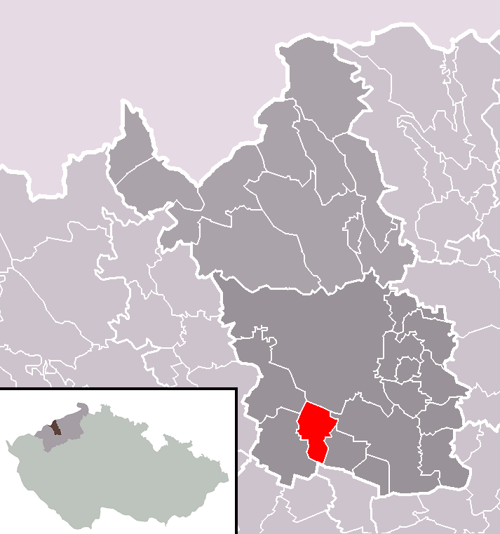 Location of Lišnice municipality within Most District and administrative area of Most as a Municipality with Extended Competence.